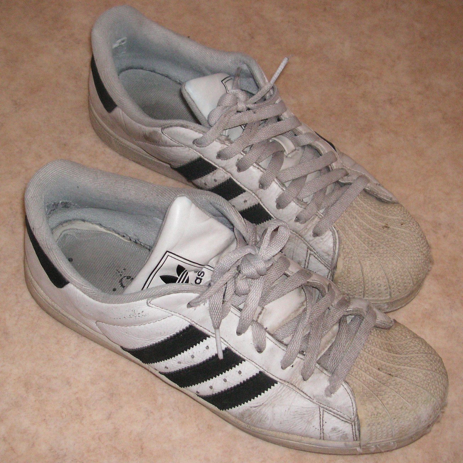 Basketball shoe Adidas Superstar